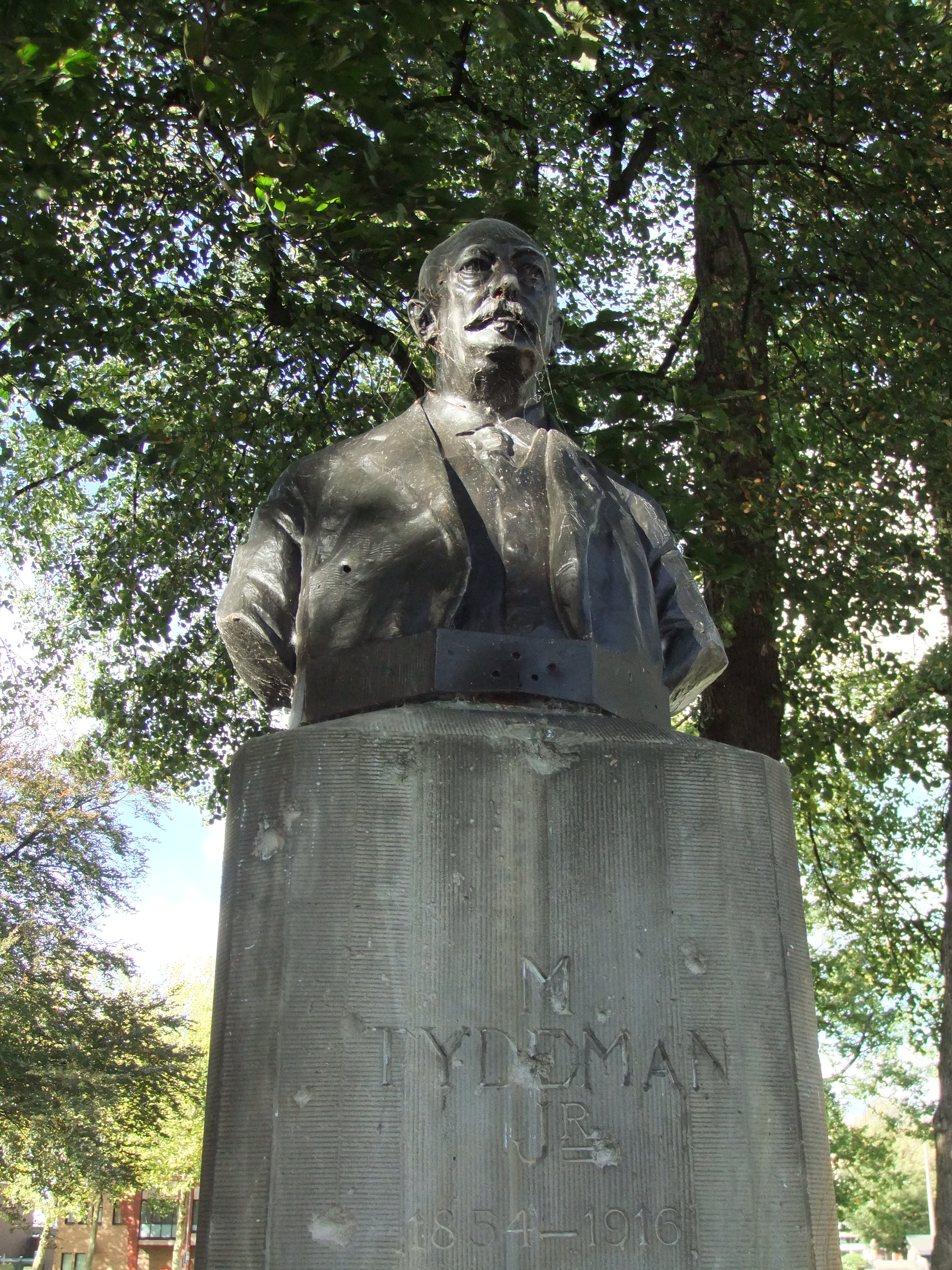 Sculpture_MrTydeman_(1917)_by_Gra_Rueb, Tiel, The Netherlands